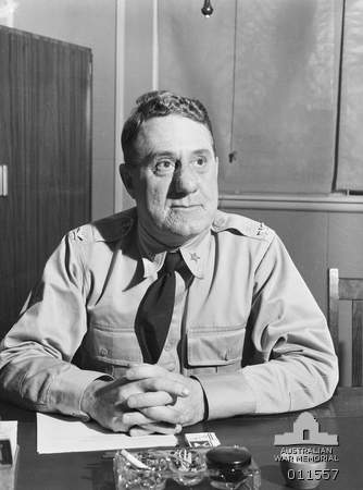 AWM caption : PORTRAIT OF COLONEL STEPHEN J. CHAMBERLIN, GENERAL STAFF CORPS, CHIEF OF STAFF, UNITED STATES ARMY FORCES IN AUSTRALIA (USAFIA).